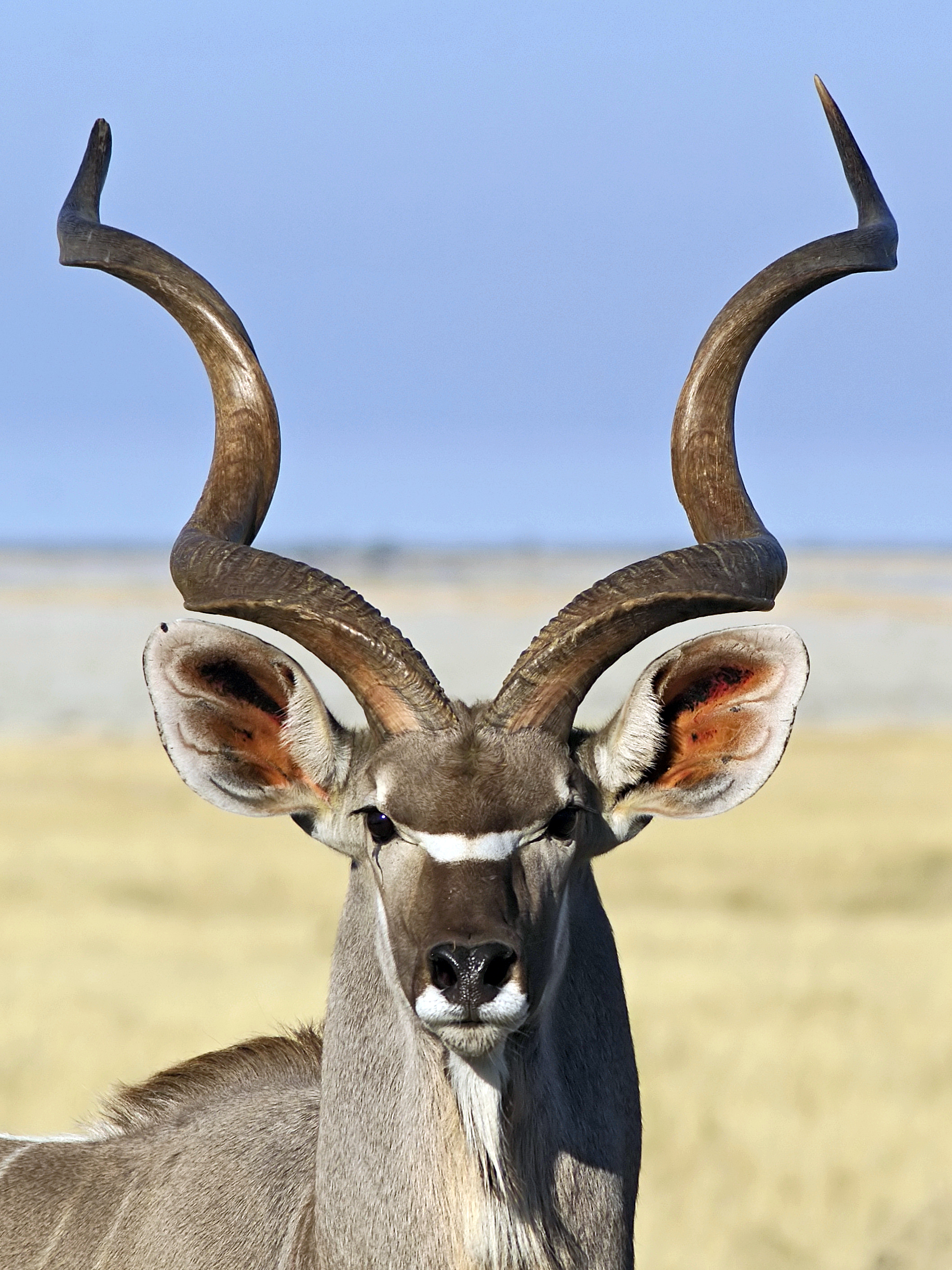 Portrait of a Greater Kudu bull near Groot Okevi, Etosha National Park, Namibia.